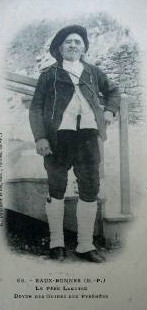 = Summary == Description Le guide Lanusse, Eaux-Bonnes, 1900 DateJune 2008Sourcescan from old documentAuthorP.Charpiat Licensing This work is in the public domain in its country of origin and other countries and areas where the copyright term is the author's life plus 70 years or less. You must also include a United States public domain tag to indicate why this work is in the public domain in the United States. Note that a few countries have copyright terms longer than 70 years: Mexico has 100 years, Colombia has 80 years, and Guatemala and Samoa have 75 years. This image may not be in the public domain in these countries, which moreover do not implement the rule of the shorter term. Côte d'Ivoire has a general copyright term of 99 years and Honduras has 75 years, but they do implement the rule of the shorter term. Copyright may extend on works created by French who died for France in World War II (more information), Russians who served in the Eastern Front of World War II (known as the Great Patriotic War in Russia) and posthumously rehabilitated victims of Soviet repressions (more information). This file has been identified as being free of known restrictions under copyright law, including all related and neighboring rights. Le guide Lanusse, Eaux-Bonnes, 1900